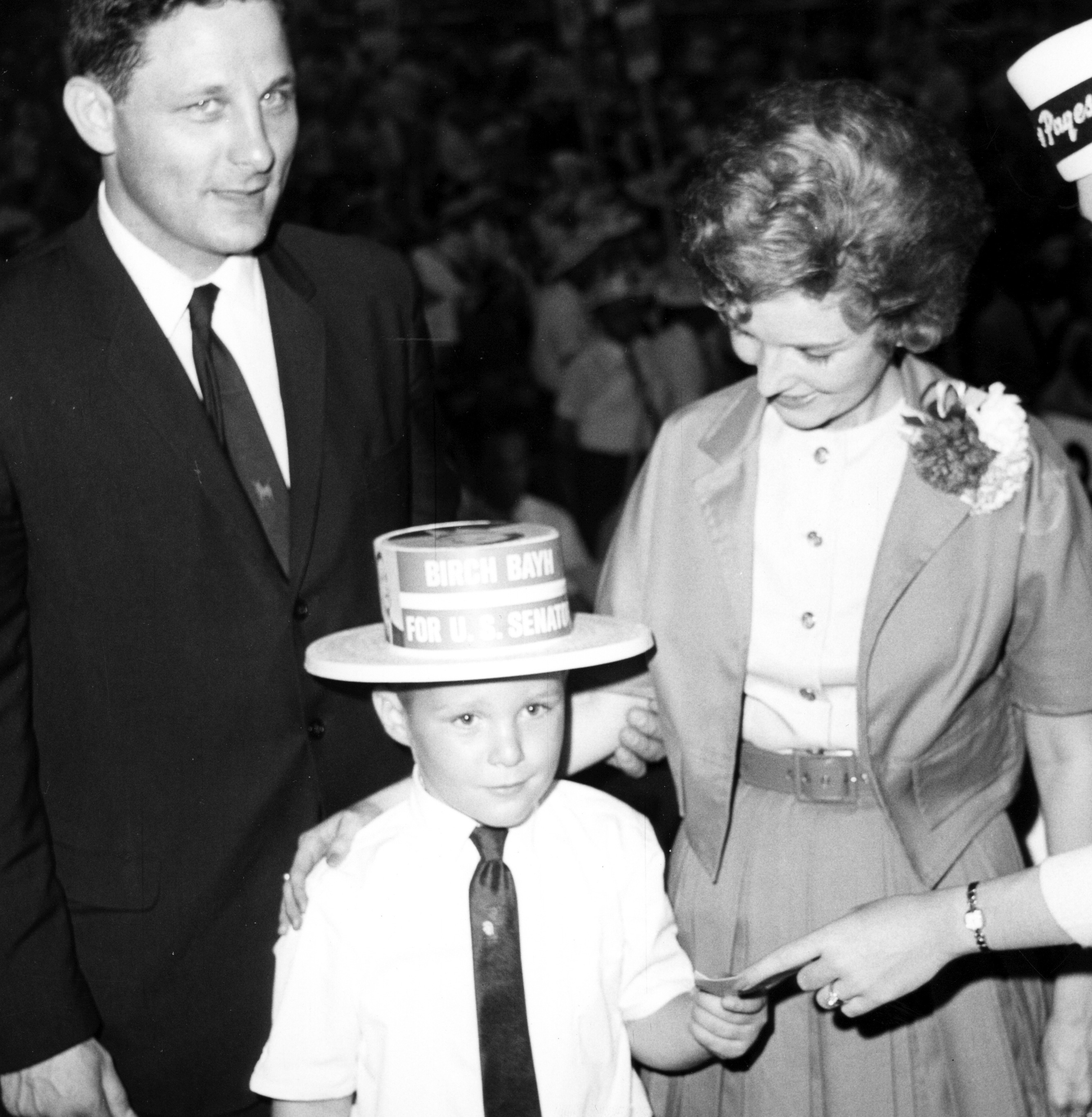 Birch Bayh with son Evan Bayh, wife Marvella Bayh and an unidentified woman during Bayh's 1962 U.S. Senate campaign in Indiana.